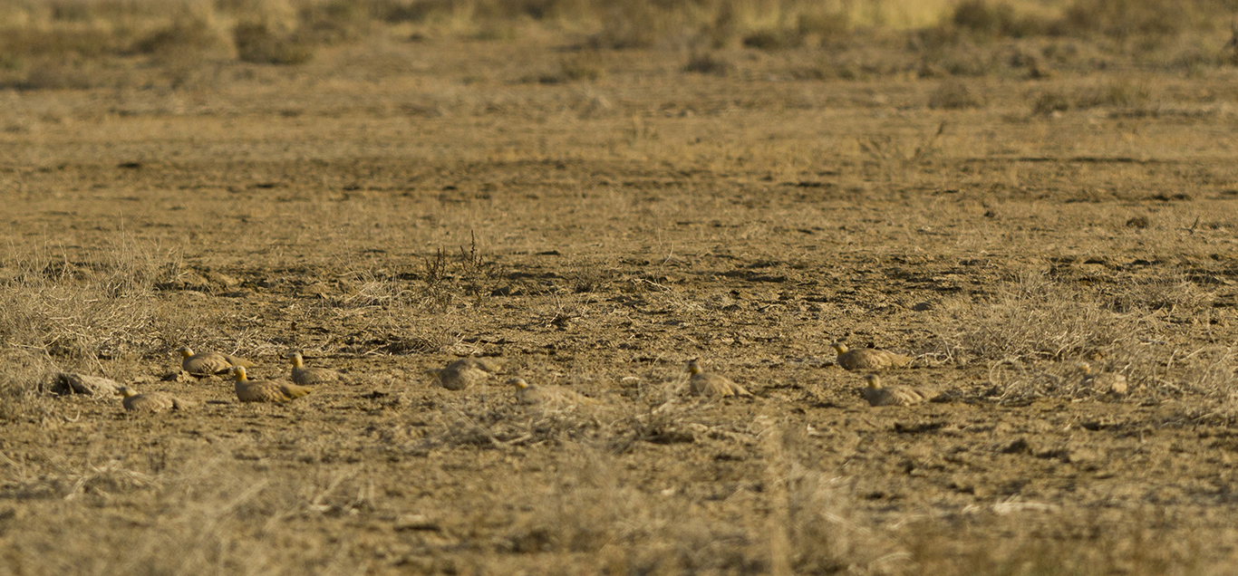 at Kutch